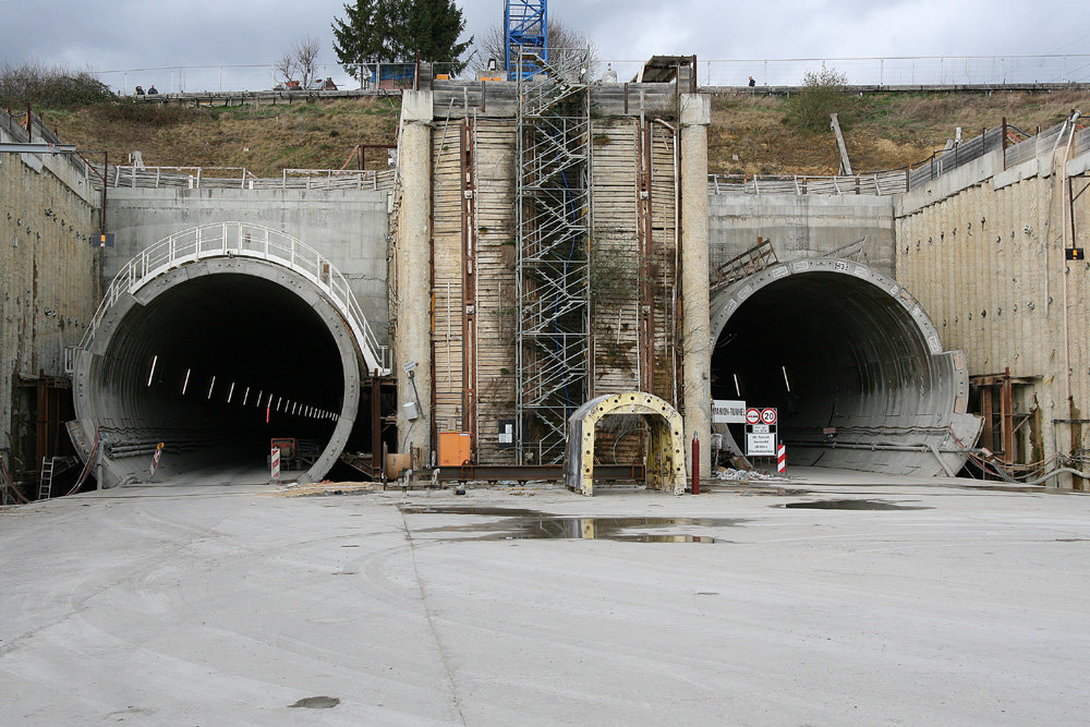 The southern end of the two Katzenberg Tunnel tube sections that were created with a TBM. In the future, a short open-cut section will serve as the continuation of these tubes.